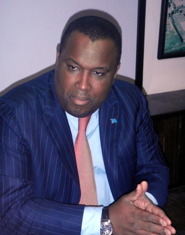 Nzanga Mobutu (2010-08-05 by Radio Okapi)